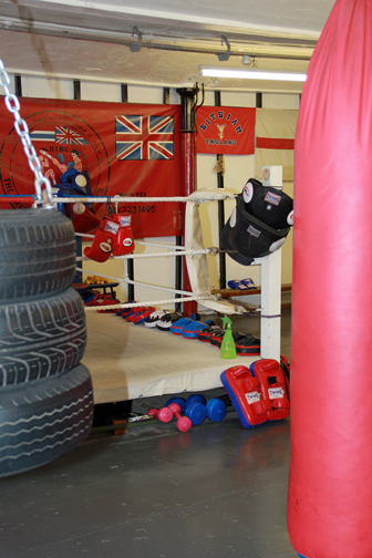 The Sitsiam Camp, England